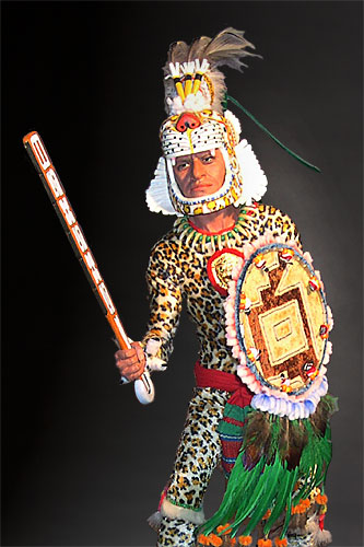 Historical Mixed Media Figure of an Aztec Leopard Warrior produced by artist/historian George S. Stuart and photographed by Peter d'Aprix. This image, from the George S. Stuart Gallery of Historical Figures® archive ( is provided for all uses with appropriate attribution. Any derivatives must be shared in the same manner. Contributor mharrsch is webmaster for the gallery site.